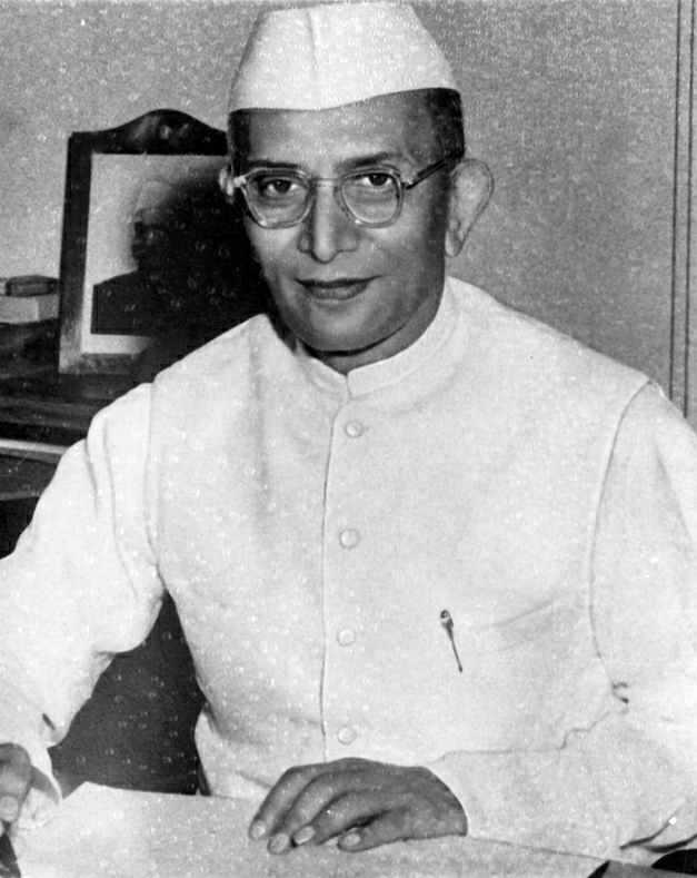 Caption:- Ph. Studio/May 1957, A32d/A22IShri Morarji Desai. (Photo taken on May 1957). Photo Number:-58685